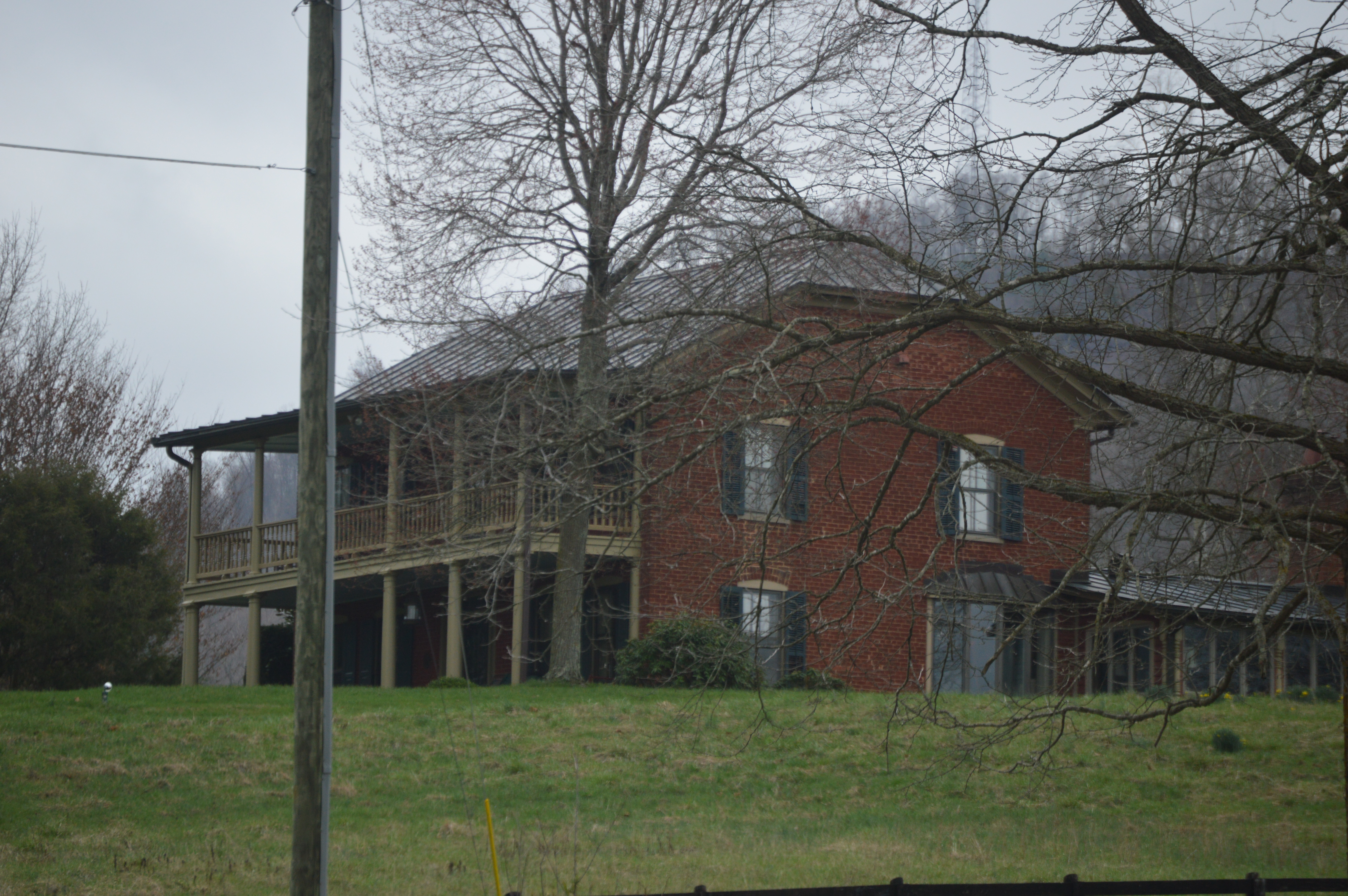 Roadside view of the Samuel Gwinn Plantation House, located along Grahams Ferry-Swoopes Knobs Road at Lowell in Summers County, West Virginia, United States. Built in 1868, it is listed on the National Register of Historic Places.